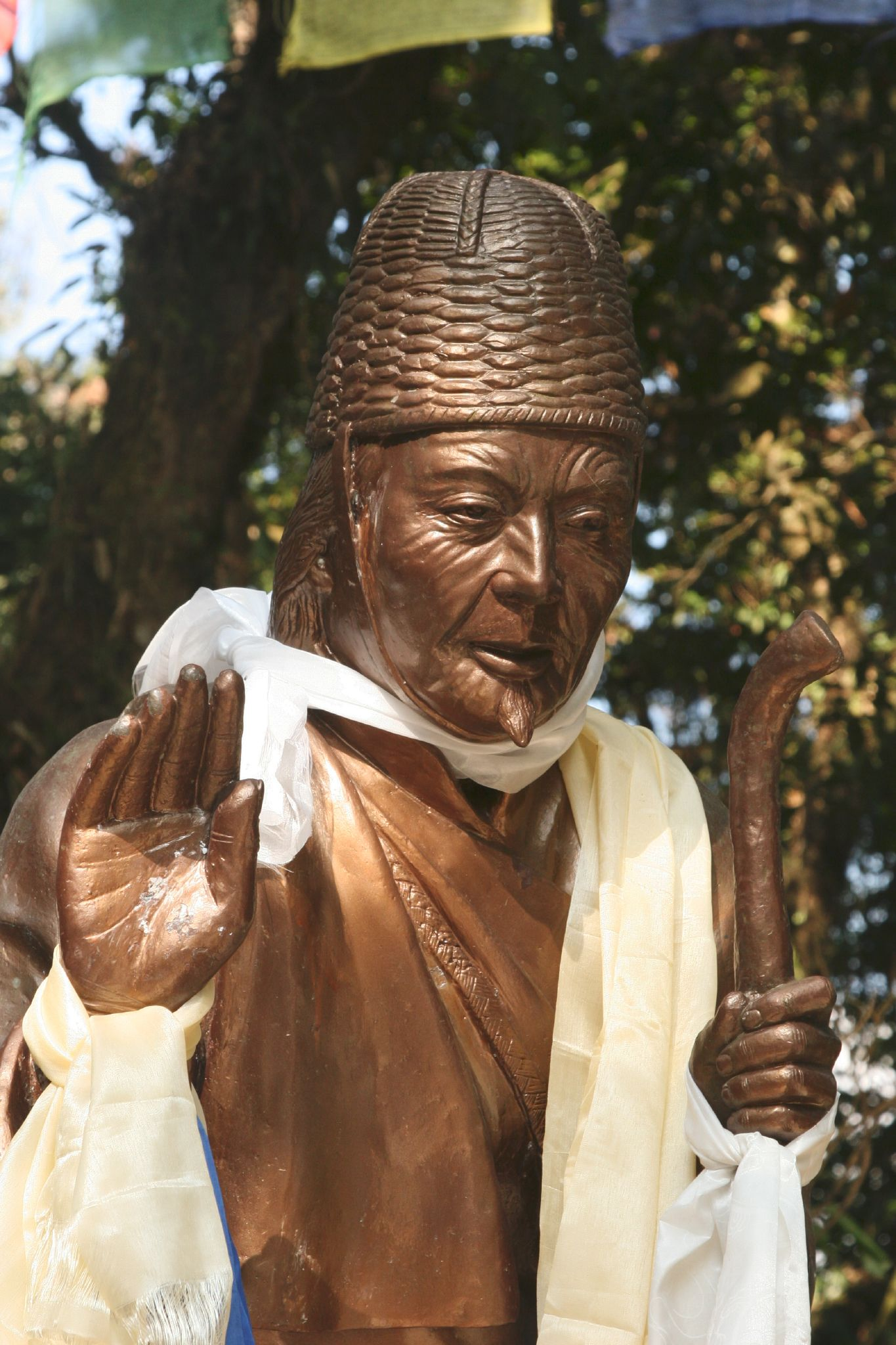 Kabi Lungchok is 17 kms from Gangtok on the North Sikkim Highway. This is where the historic treaty of blood brotherhood between the Lepcha Chief Te-Kung-Tek and the Bhutia Chief Khey-Bum-Sa was signed ritually. The spot where the ceremony took place is marked by a memorial stone pillar amidst the cover of dense forest.